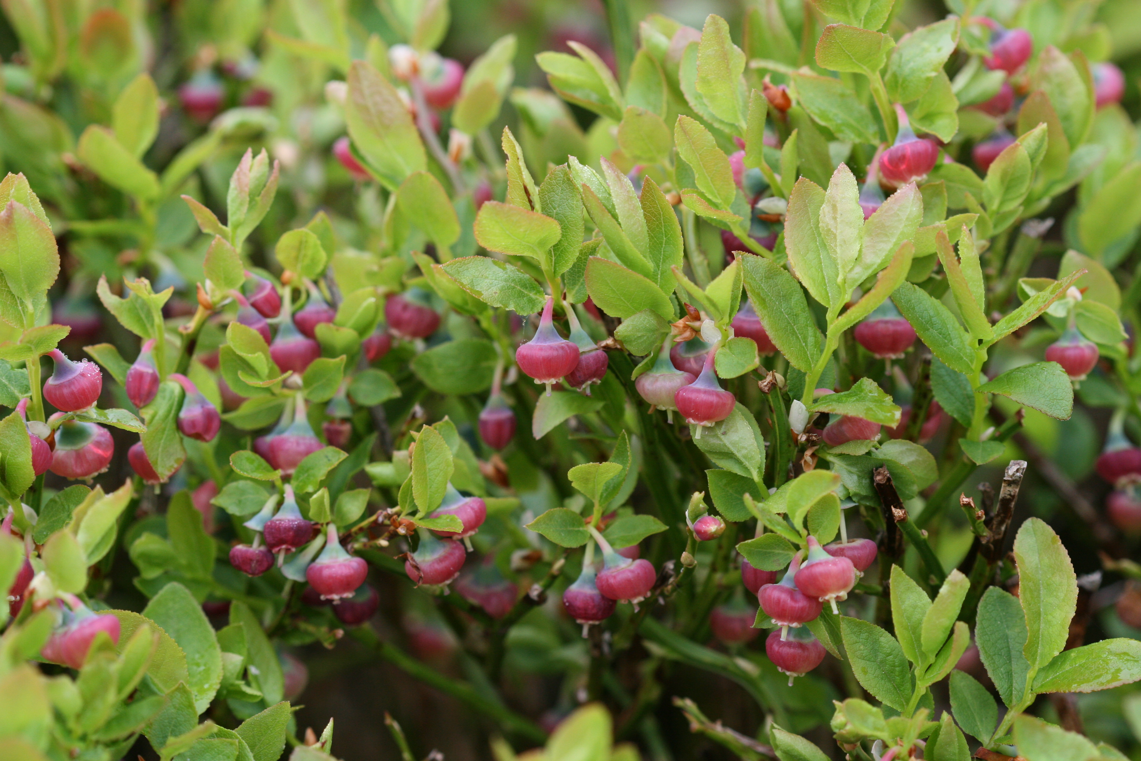 Or bilberry as it's known in other parts of Britain. Bonaly, Edinburgh, Scotland. NT2067